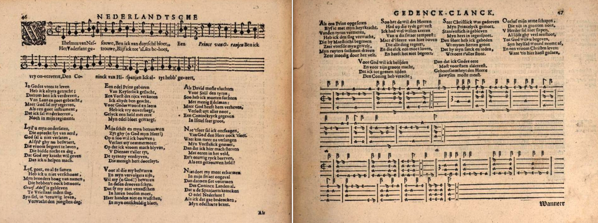 Oldest publication of Dutch national anthem "Wilhelmus" with tune, in "Nederlandtsche Gedenck-Clanck" by Adrianus Valerius, 1626